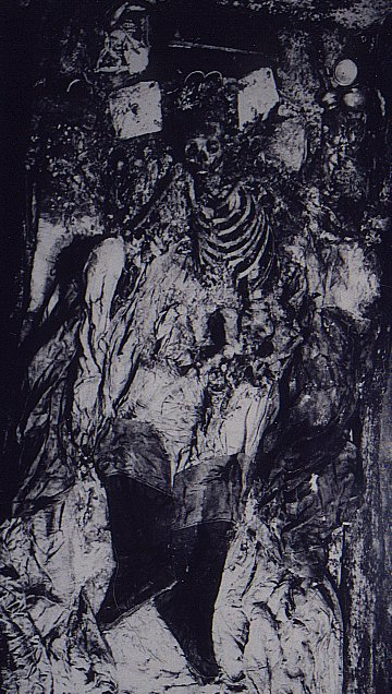 The corpse of the chinese emperor Wanli. This picture was taken in the Dingling tomb - a part of the Ming Dynasty Tombs.